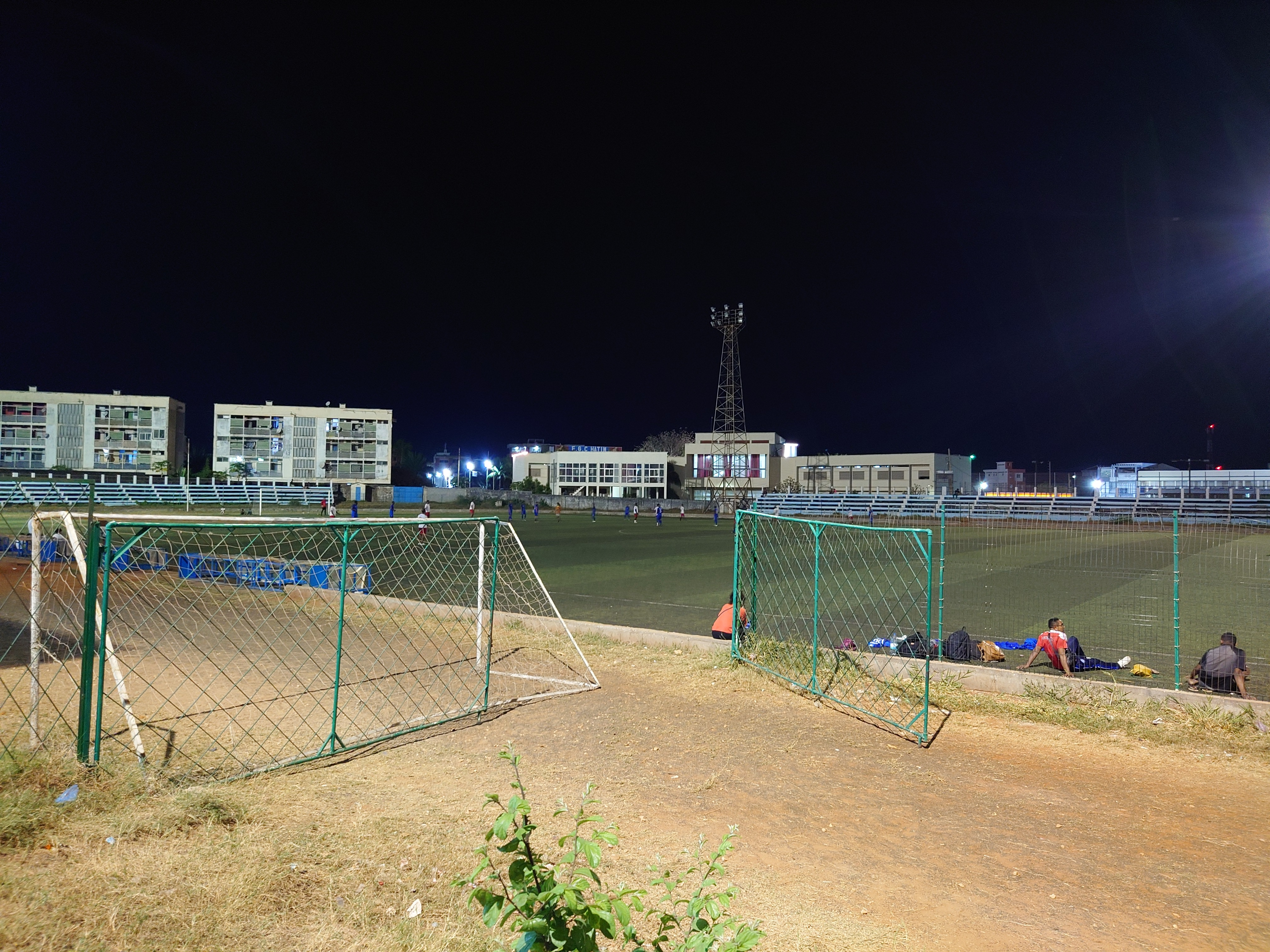 Stadium